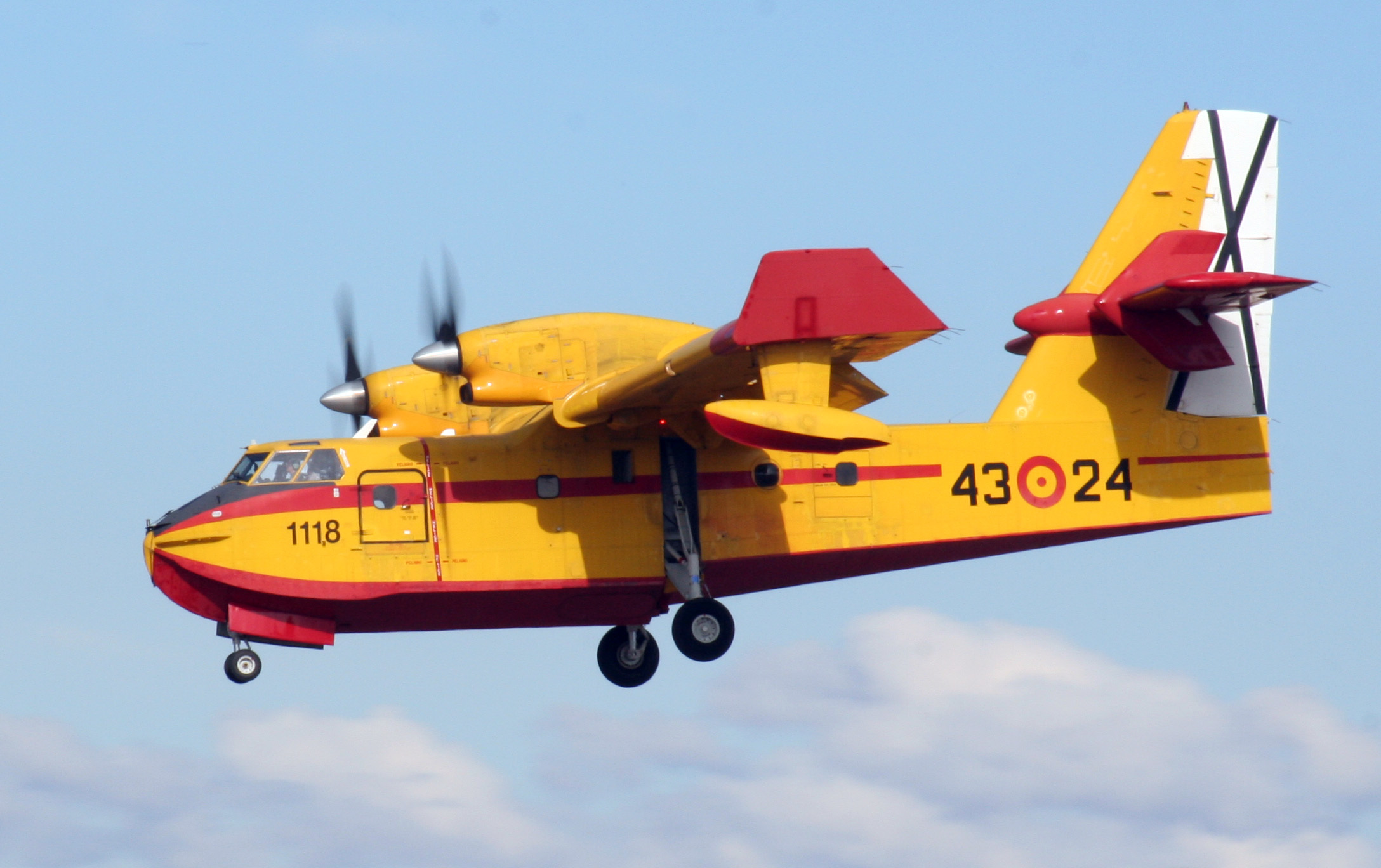 Canadair CL-215T Spain Air Force UD.13-24 / 43-24 C/N 1118